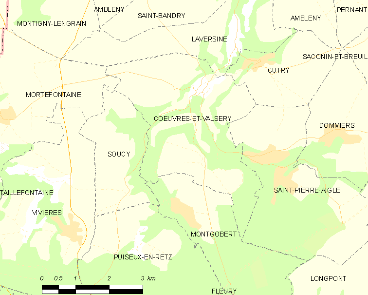 Map of French commune: Cœuvres-et-Valsery Map commune FR insee code 02201.png